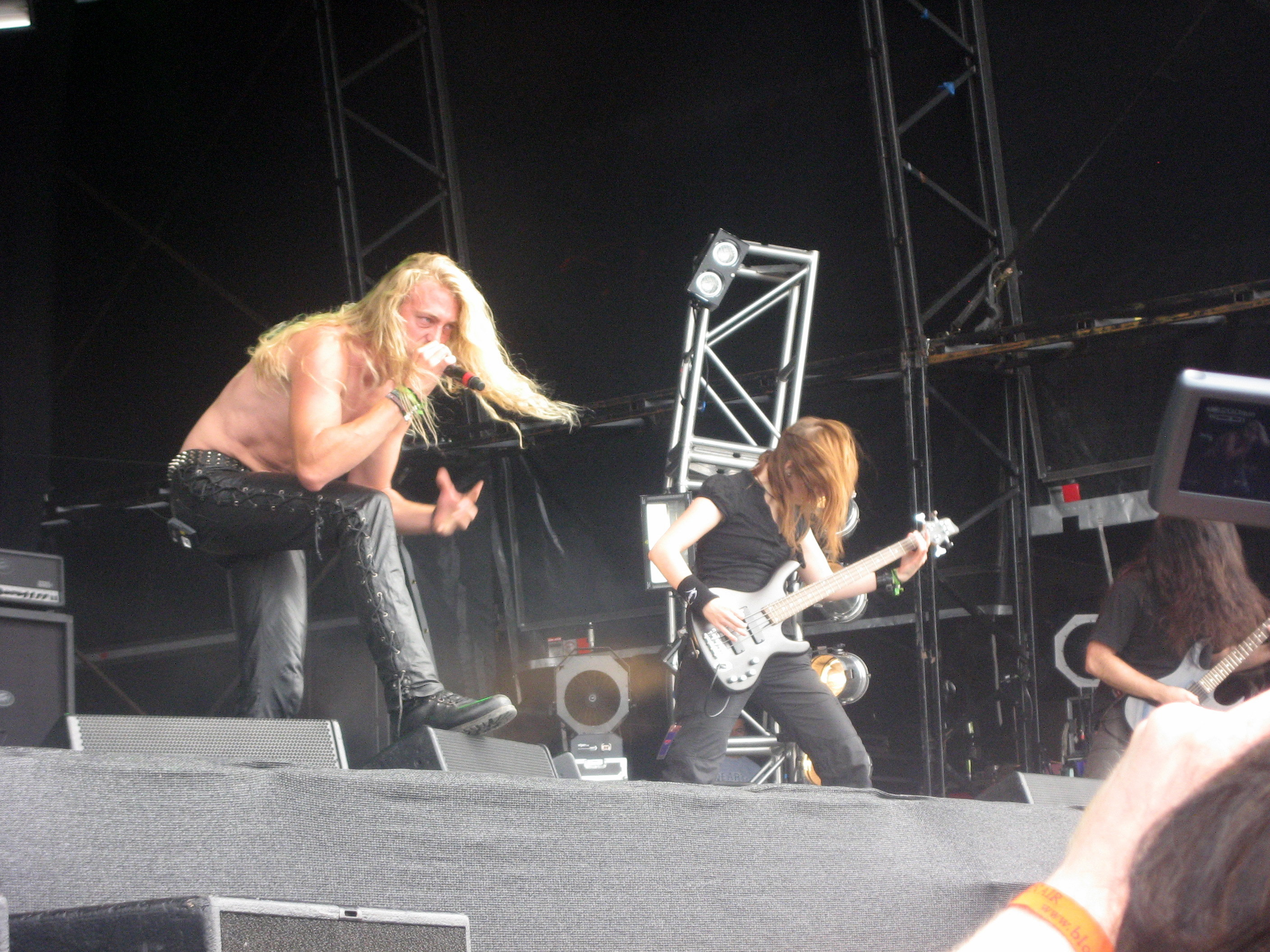 Helge Stang and Sandra Völkl of the German heavy metal band Equilibrium live at Bloodstock Open Air 2009.